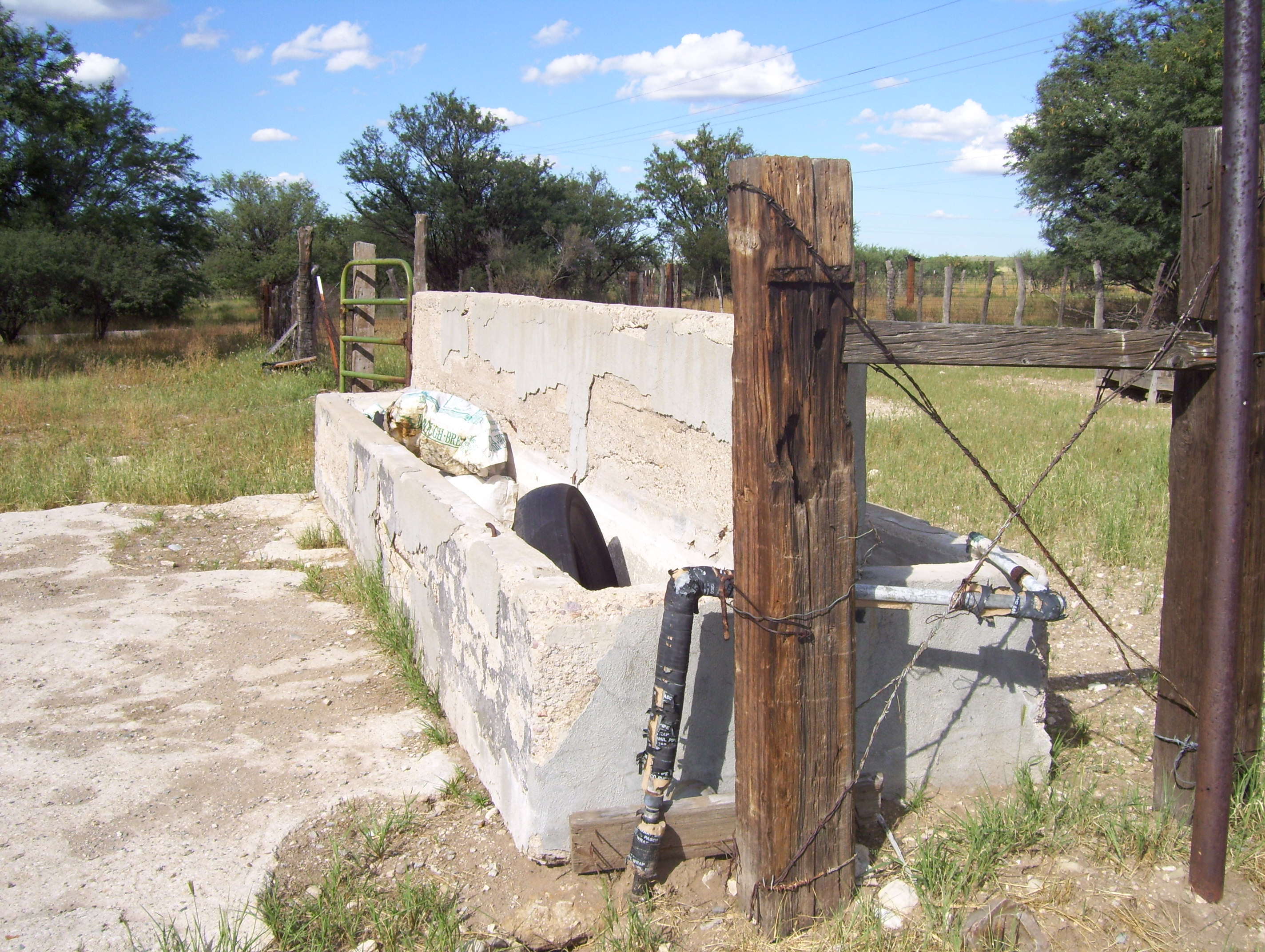 Livestock trough near Empire Ranch, Arizona. In September 2007.